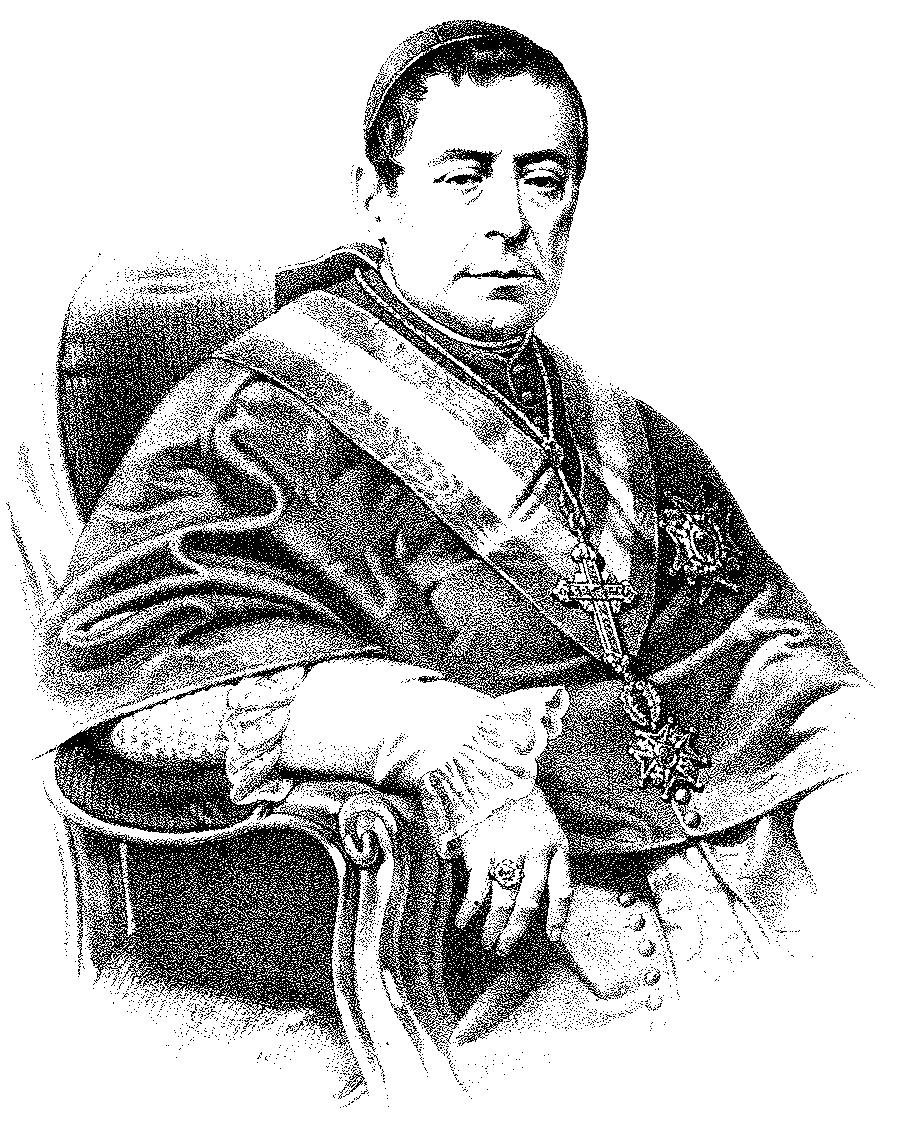 Cardenal Arzobispo de Santiago de Compostela, Obispo de Jeca, Catedrático de la Universidad de Salamanca, Senador vitalicio del Reino de España y diputado a las Cortes Constituyentes de 1869. Natural de Macotera, provincia de Salamanca.